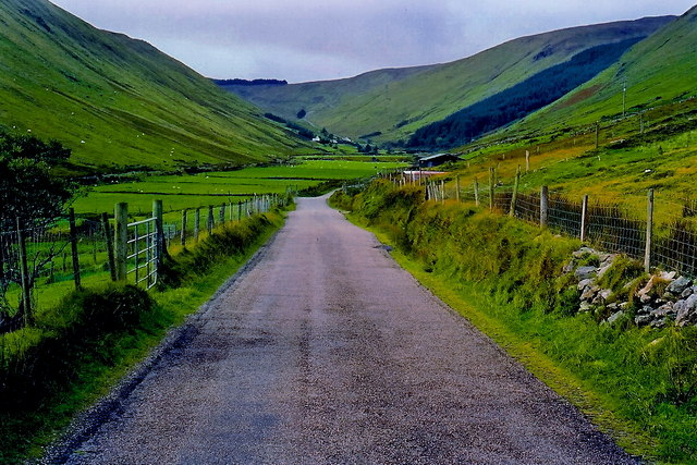 Glengesh Pass - View from north-east end of road